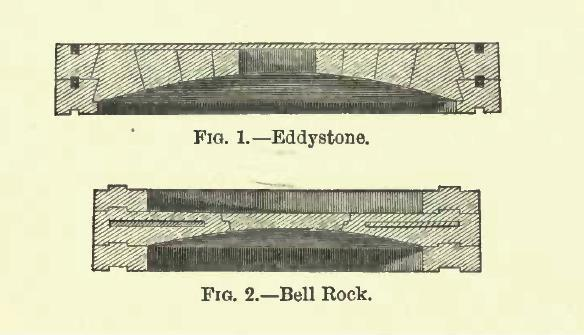 Bell Rock lighthouse. Roof construction detail compared with the one of Eddystone lighthouse